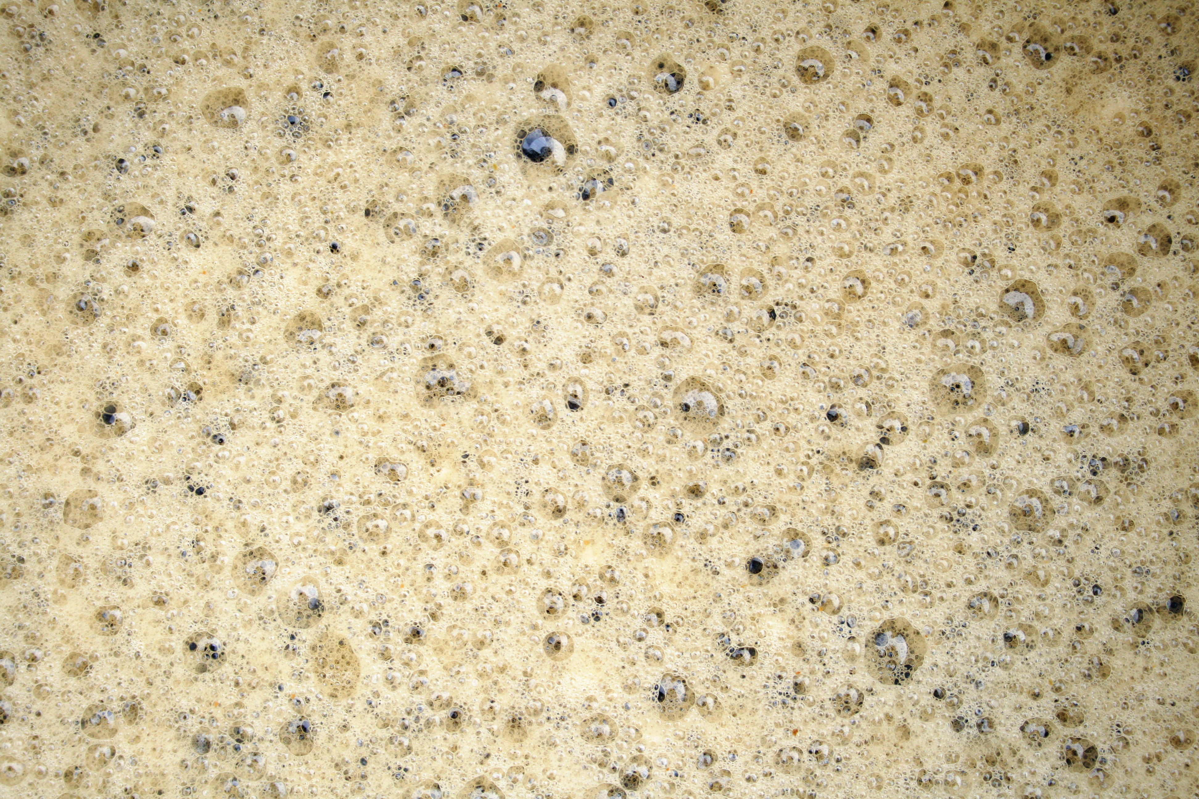 Bubbles forming during beer-brewing by a home brewer in Durham, North Carolina.